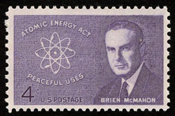 1962 US stamp honoring Brien McMahon